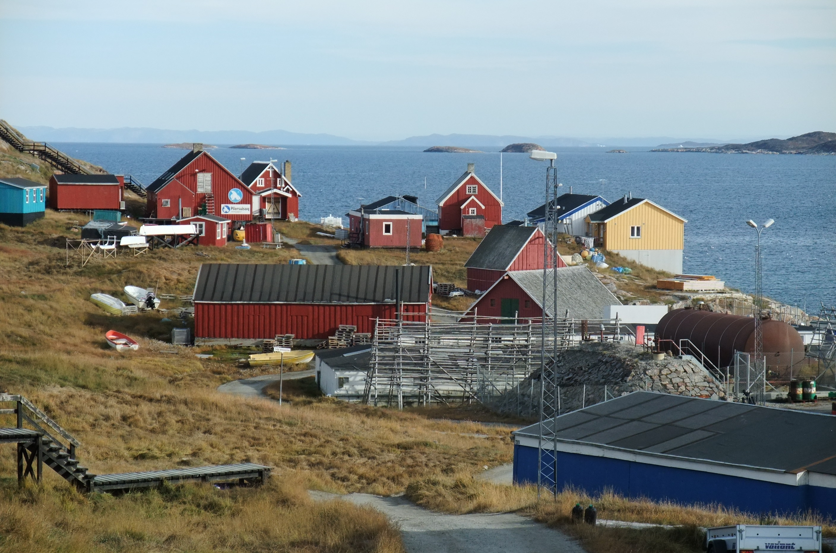 Background from left: The light blue house is the "guest house" for acommodating workers etc. staying in the village. Then a small storage building, The Pilersuisoq store, the church, the KNI office, and the old store managers house (B-85). The white/blue house is the common "service house" and the yellow is the "health care house". The three red houses in the middle are the old storage and salting houses - B-71, B-75 and B-83.